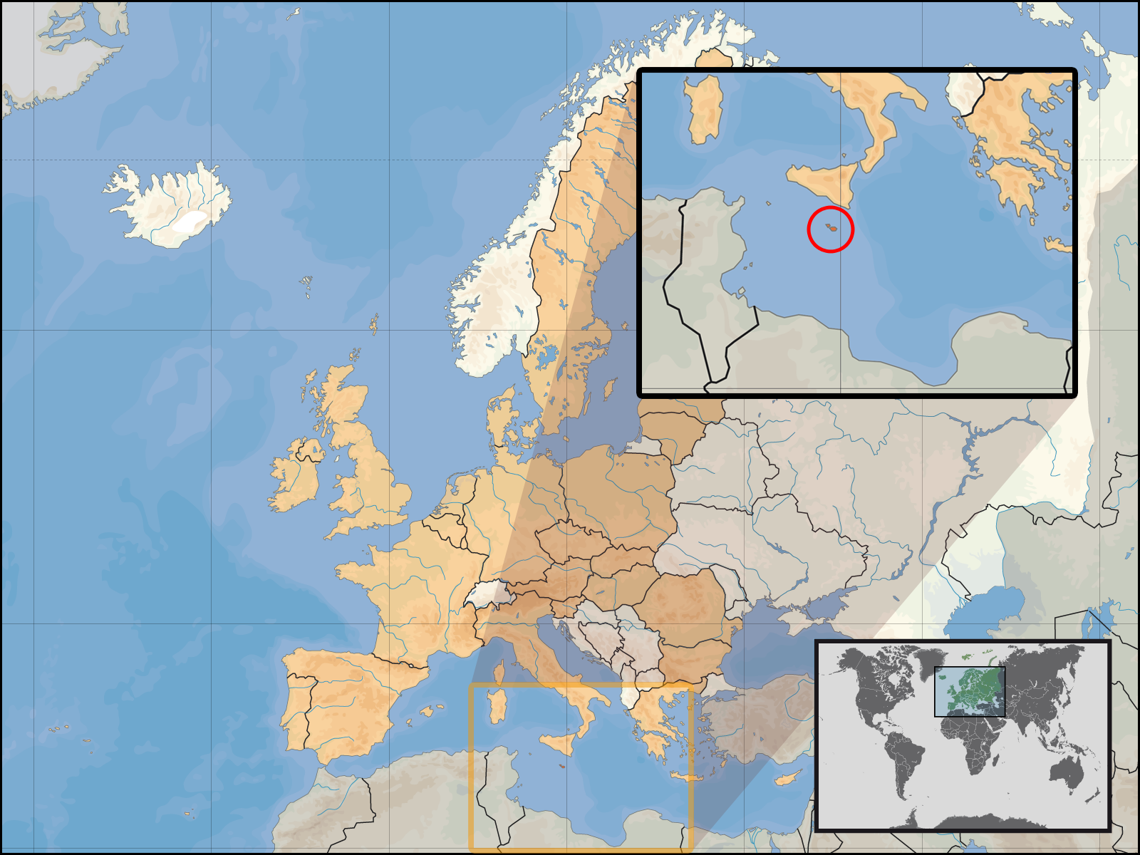 Location of Malta within Europe and the European Union on the 1st of January 2007.